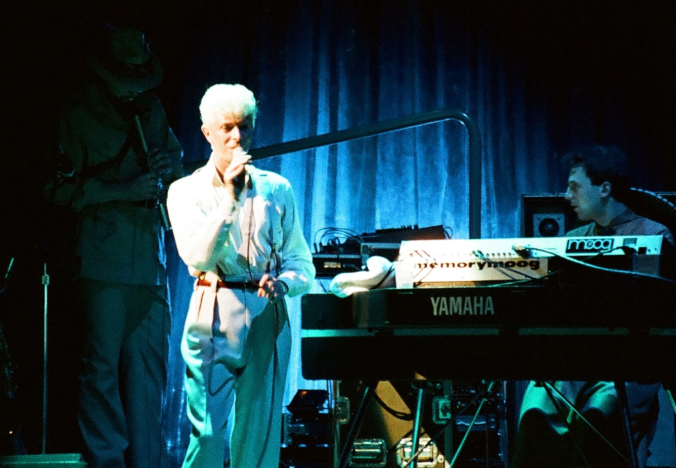 David Bowie and others on stage during the 1983 Serious Moonlight Tour